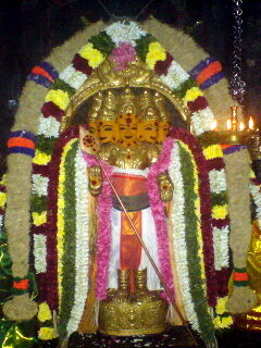 the main deity in Thirumuruganpoondi temple..